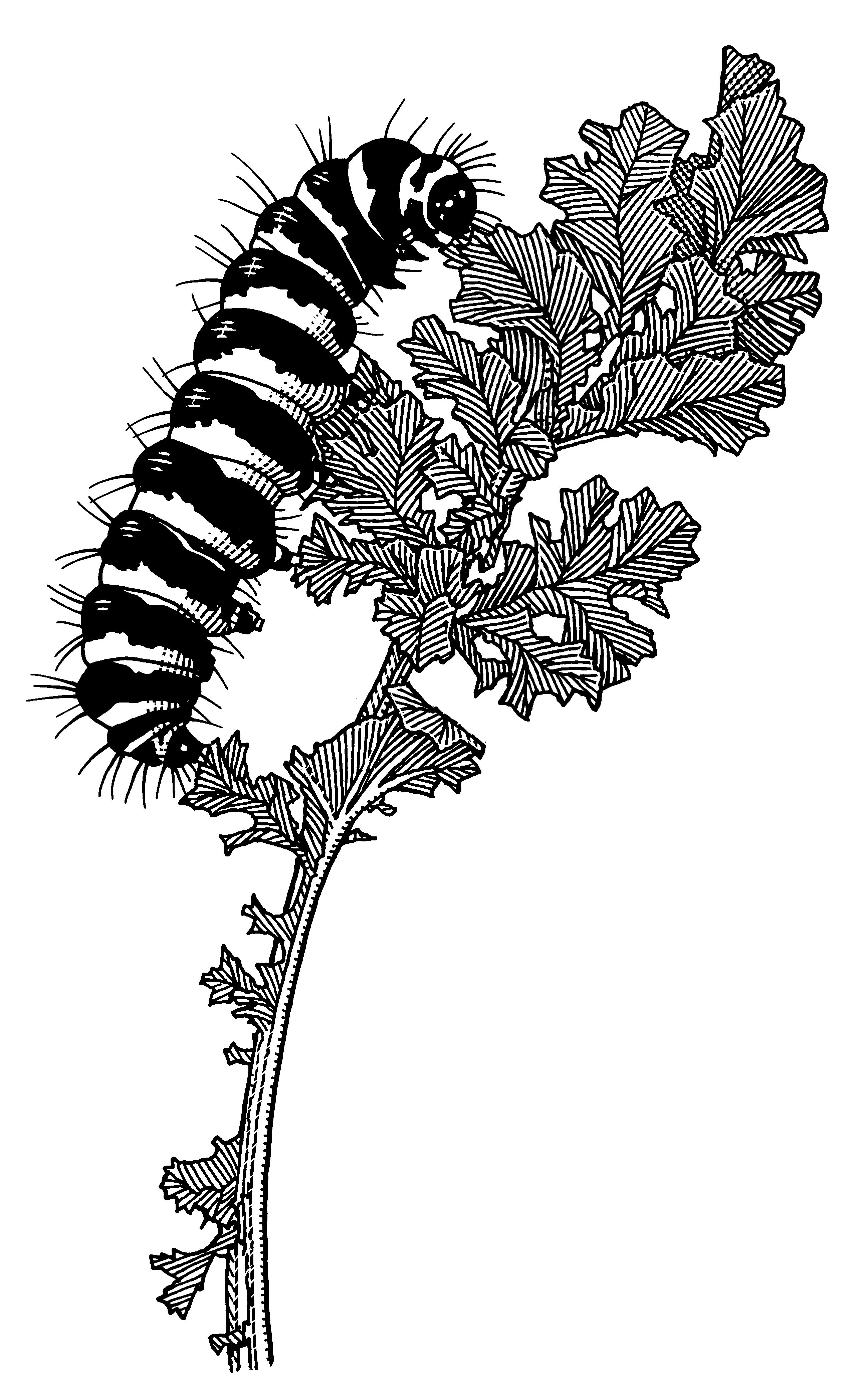 (Lepidoptera: Arctiidae) Tyria jacobaeae larva illustrated by Des Helmore.